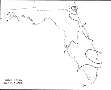 Rainfall totals in Florida from the 1900 Galveston hurricane